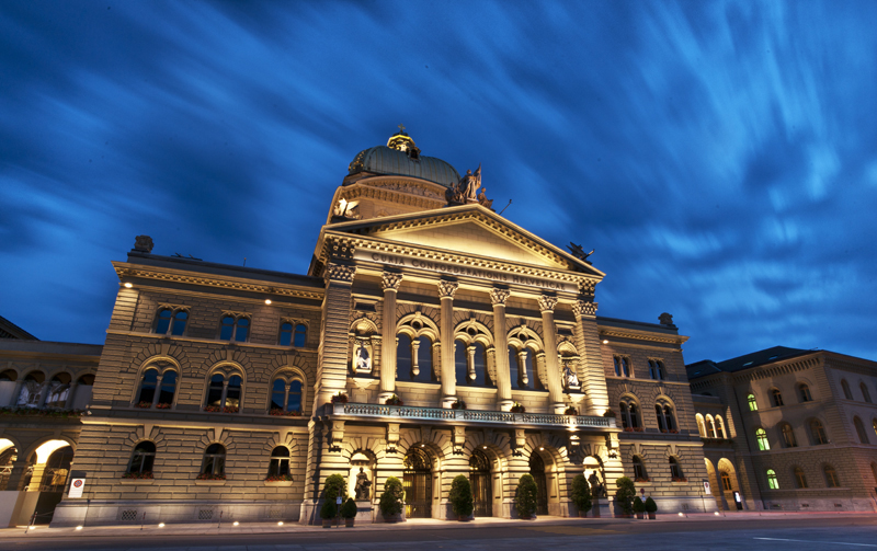 The Federal Palace of Switzerland in Bern, venue of the Swiss federal parliament.